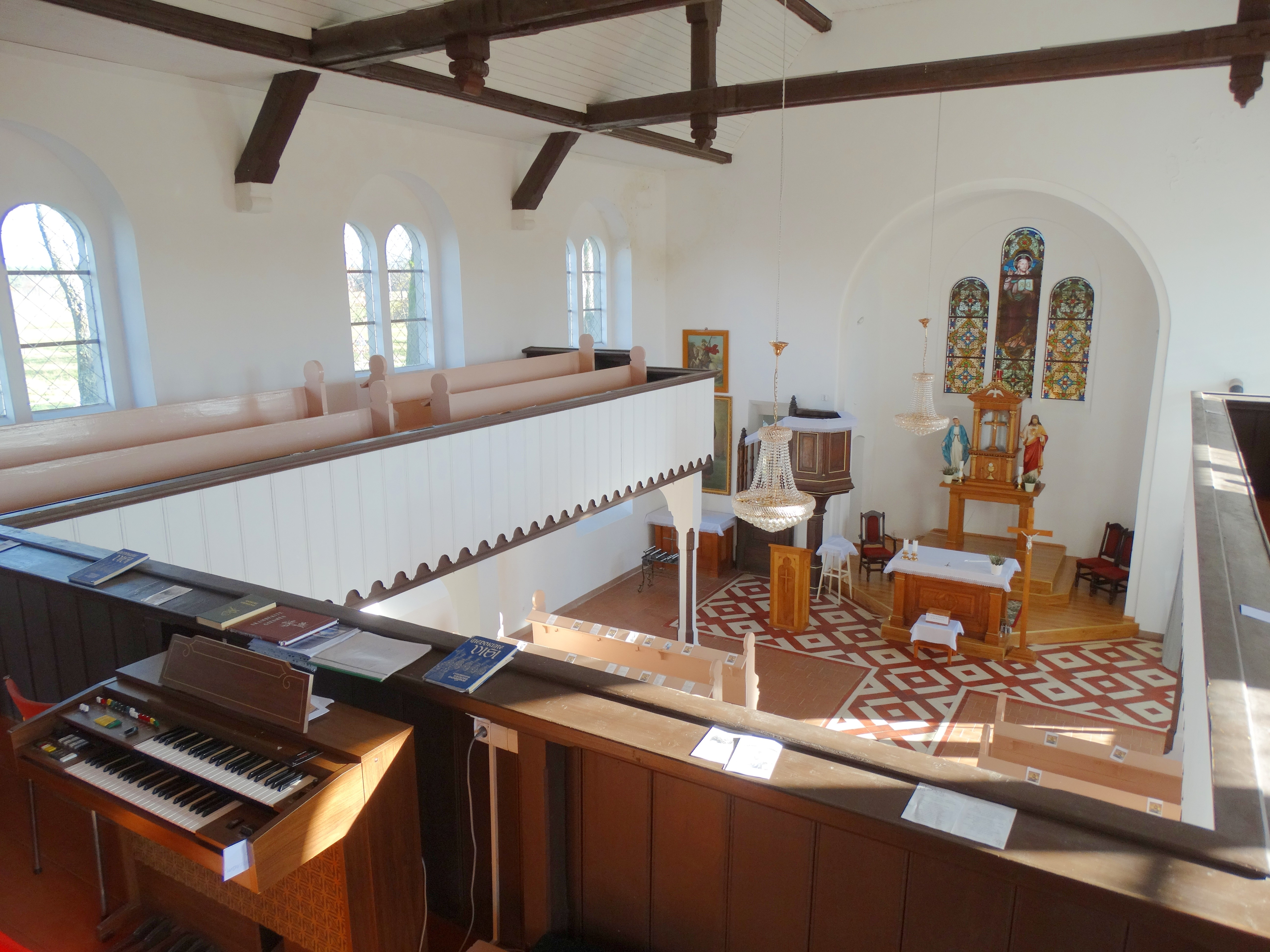 Evangelical Lutheran Church, Rukai, Pagėgiai Municipality, Lithuania